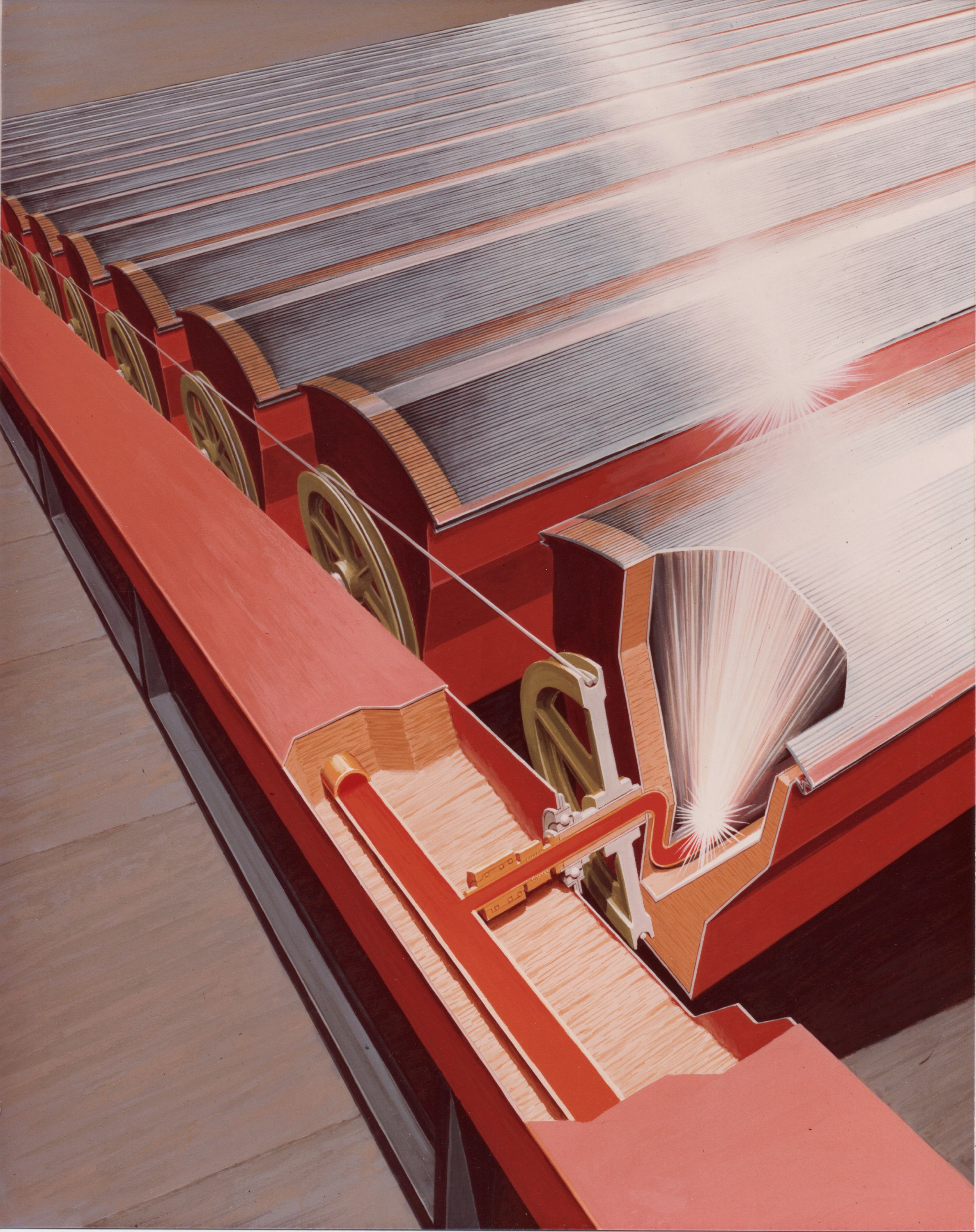 heliostatic passive solar concentrators